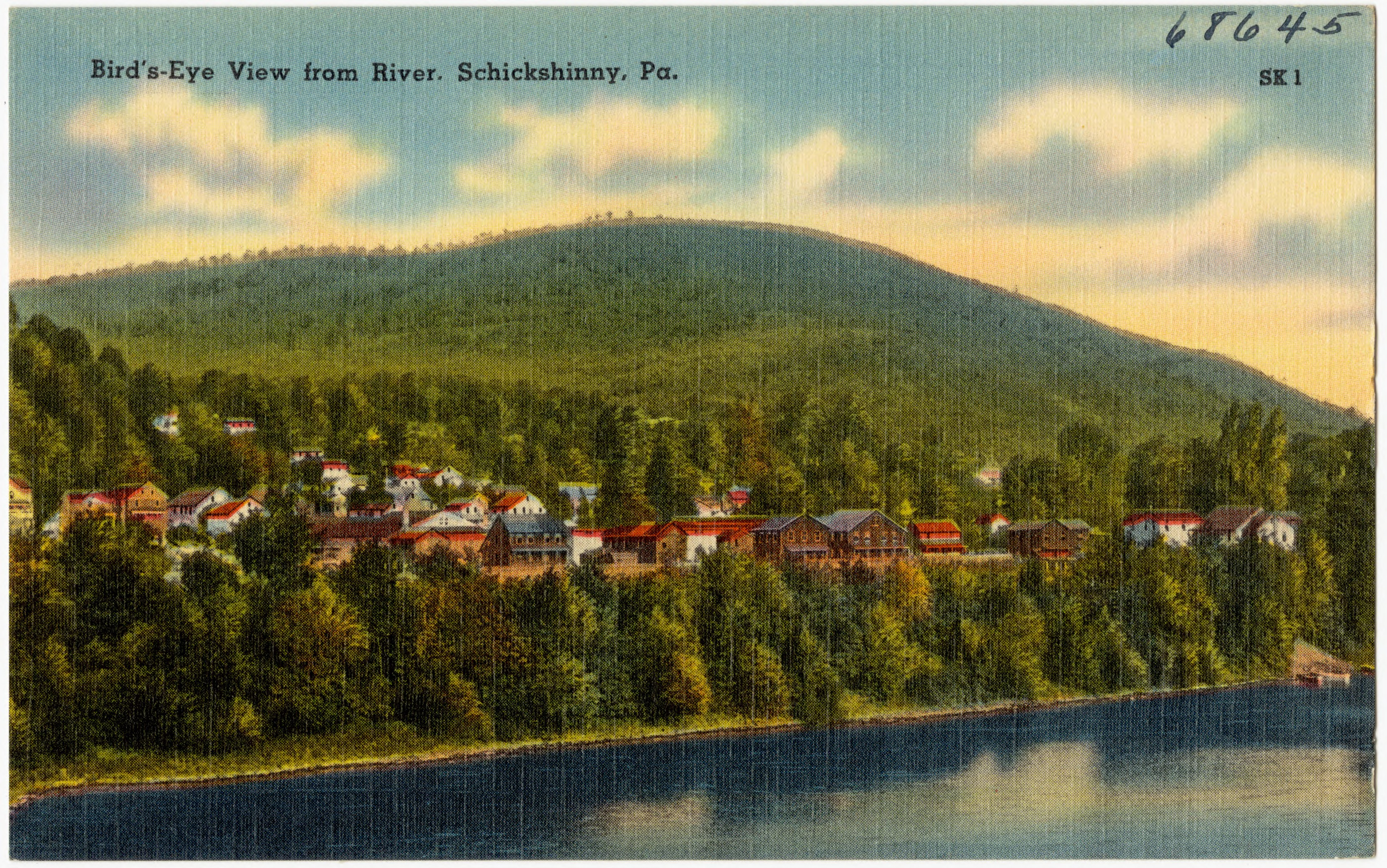 Title: Bird's-eye view from river, Schickshinny, Pa. Subjects: Rivers; Mountains Places: Pennsylvania Notes: Title from item. Extent: 1 print (postcard) : linen texture, color ; 3 1/2 x 5 1/2 in. Accession #: 06_10_018324